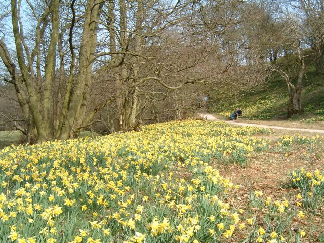 Farndale Farndale is famous for its display of wild daffodils every spring. This picture is facing North with the beck on the left and is taken at the edge of the wooded area at the Northwest of the square.